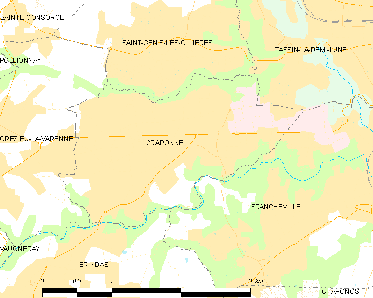 Map of French municipality